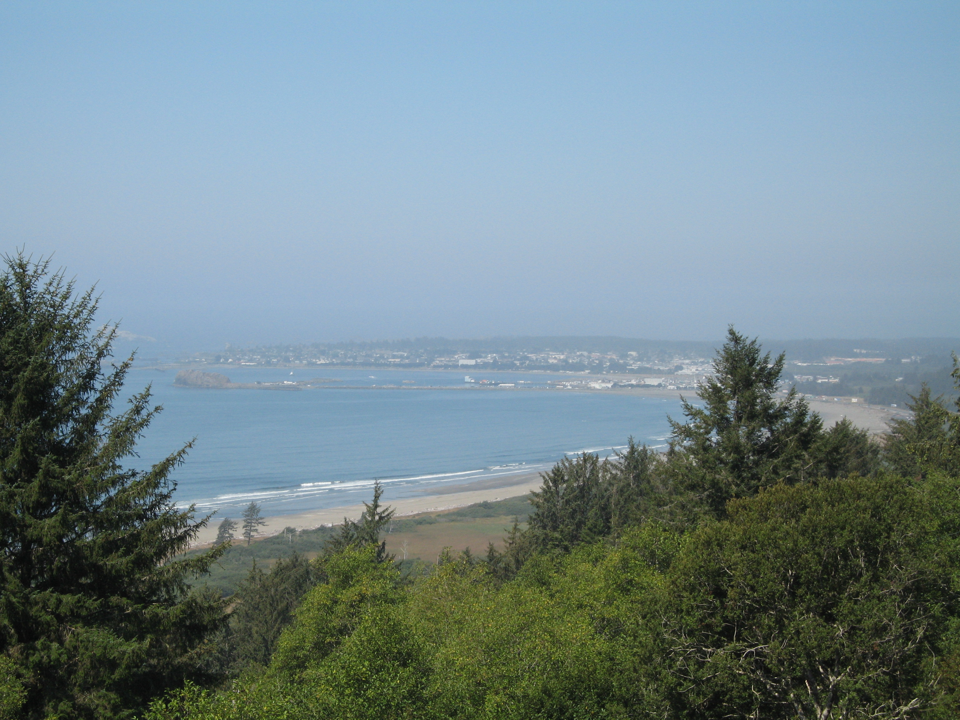 A view of Crescent City, California, from quite a long way away.